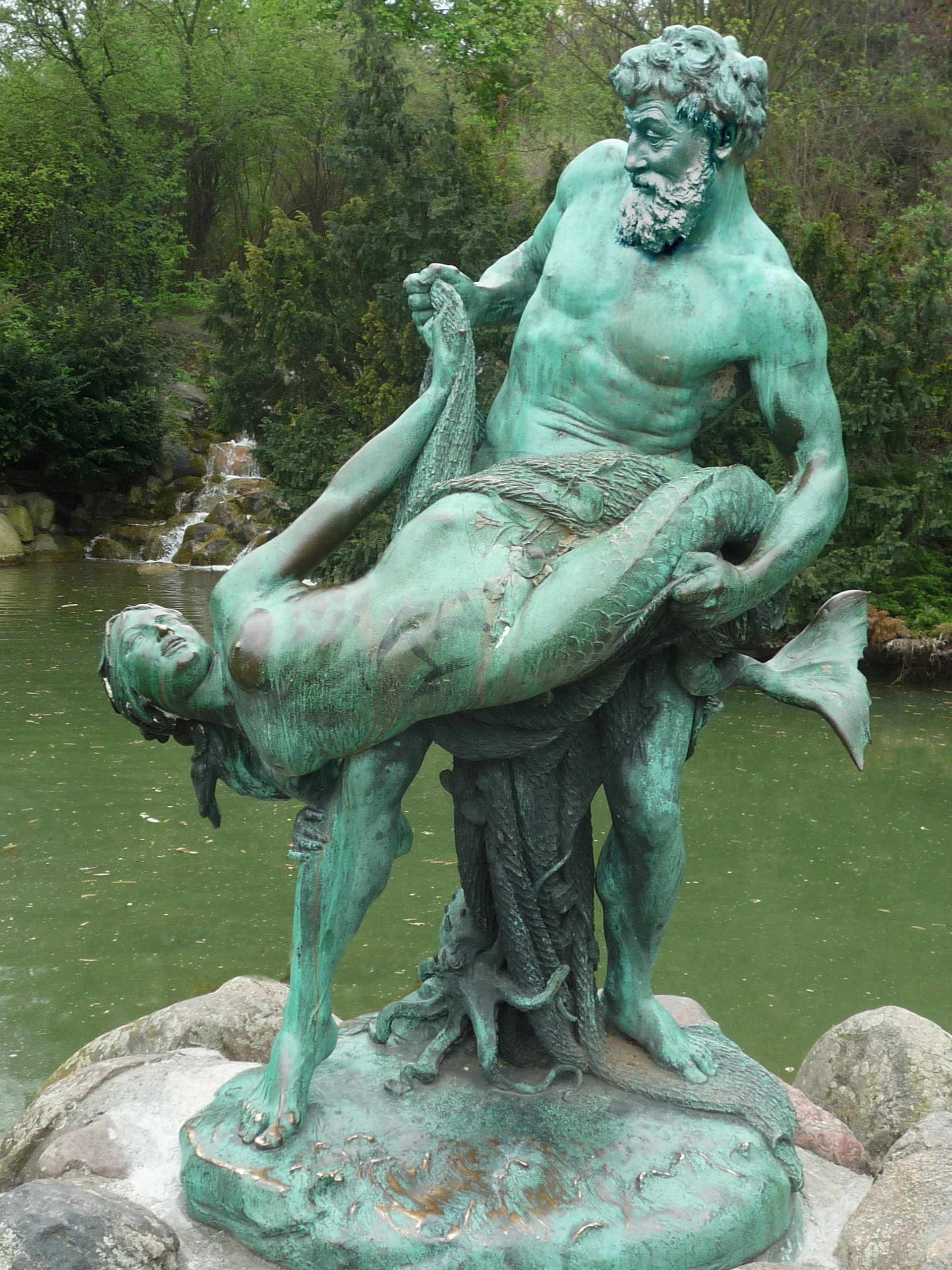 A sculpture (bronze) made by Ernst Herter (Berlin, 1846-1917). Actually placed at Viktoriapark, Berlin-Kreuzberg.